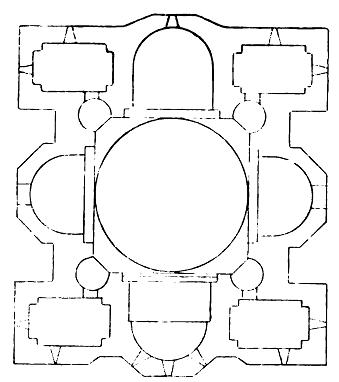 A ground-plan of Ateni Sioni church, Georgia.